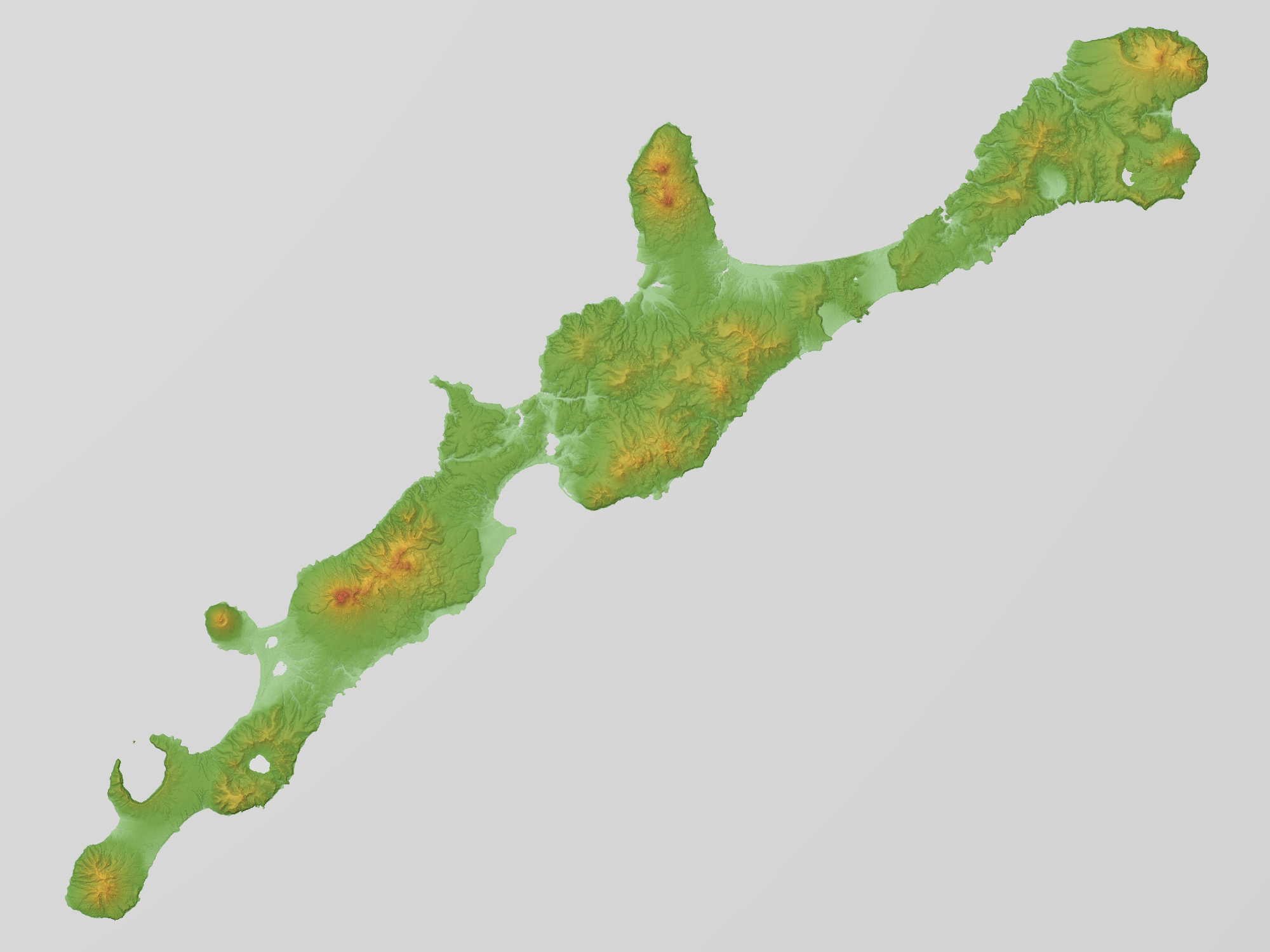 Iturup in Kuril Islands, Russia.